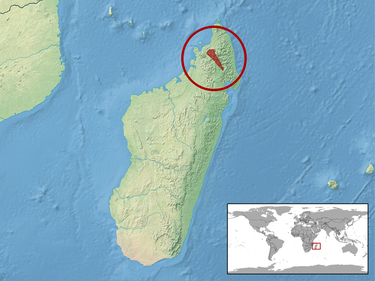 geographic distribution of Calumma peltierorum (Native: Madagascar)